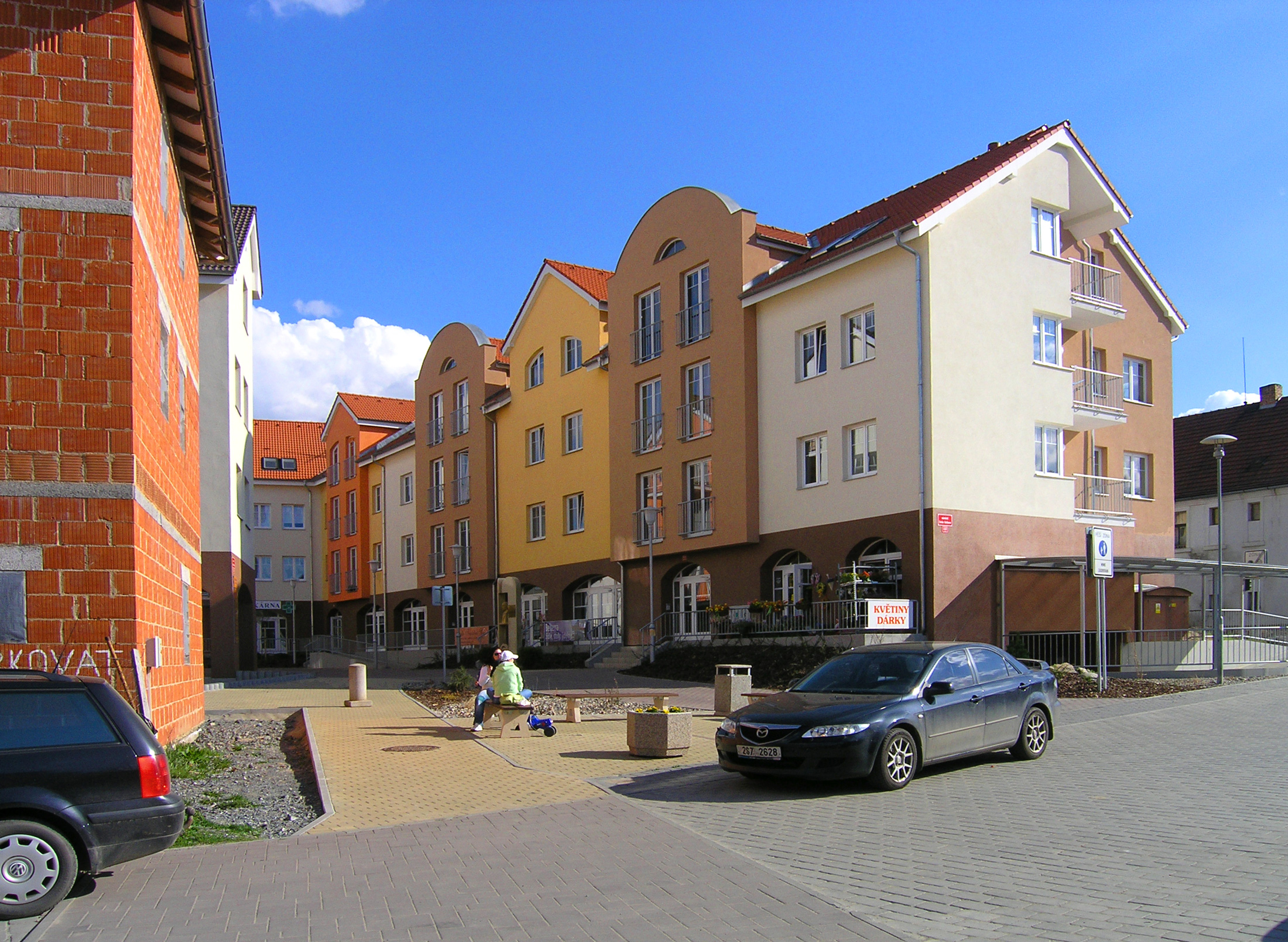 New housing in Pod Lipami street in Strančice, Czech Republic